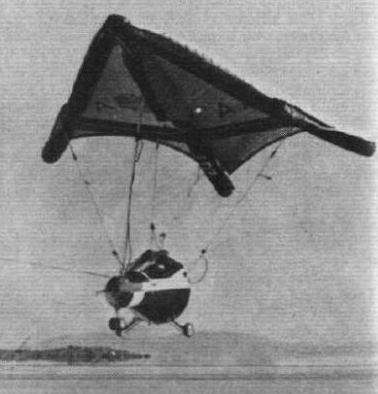 Flight test of a Gemini spacecraft fitted with the proposed paraglider recovery system